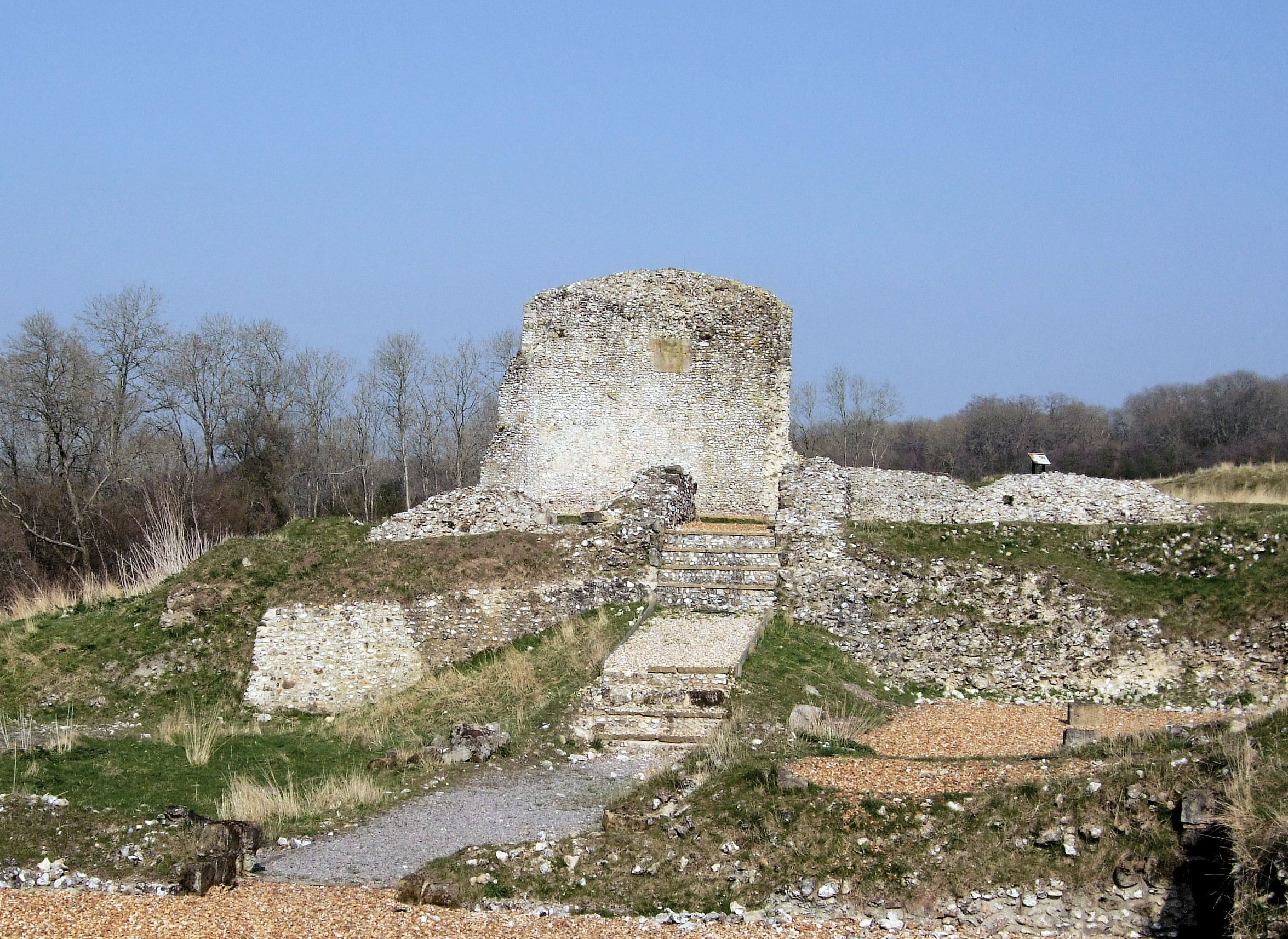 The following is the author's description of the photograph quoted directly from the photograph's Flickr page."Clarendon Palace is a medieval ruin near Salisbury in Wiltshire, England. All that now survives above ground level is the one end wall of the Great Hall."